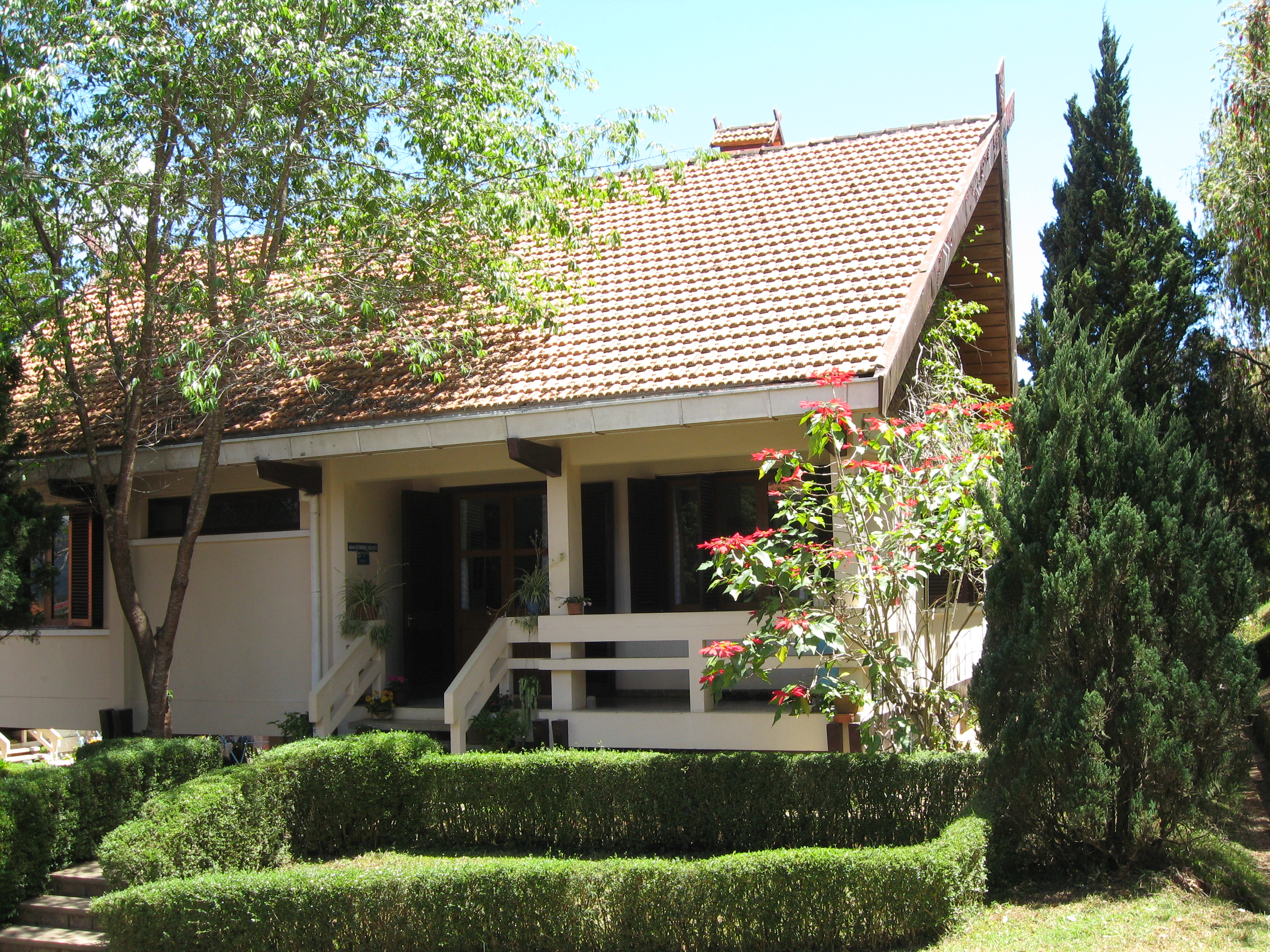 SOS Children's Village Da Lat